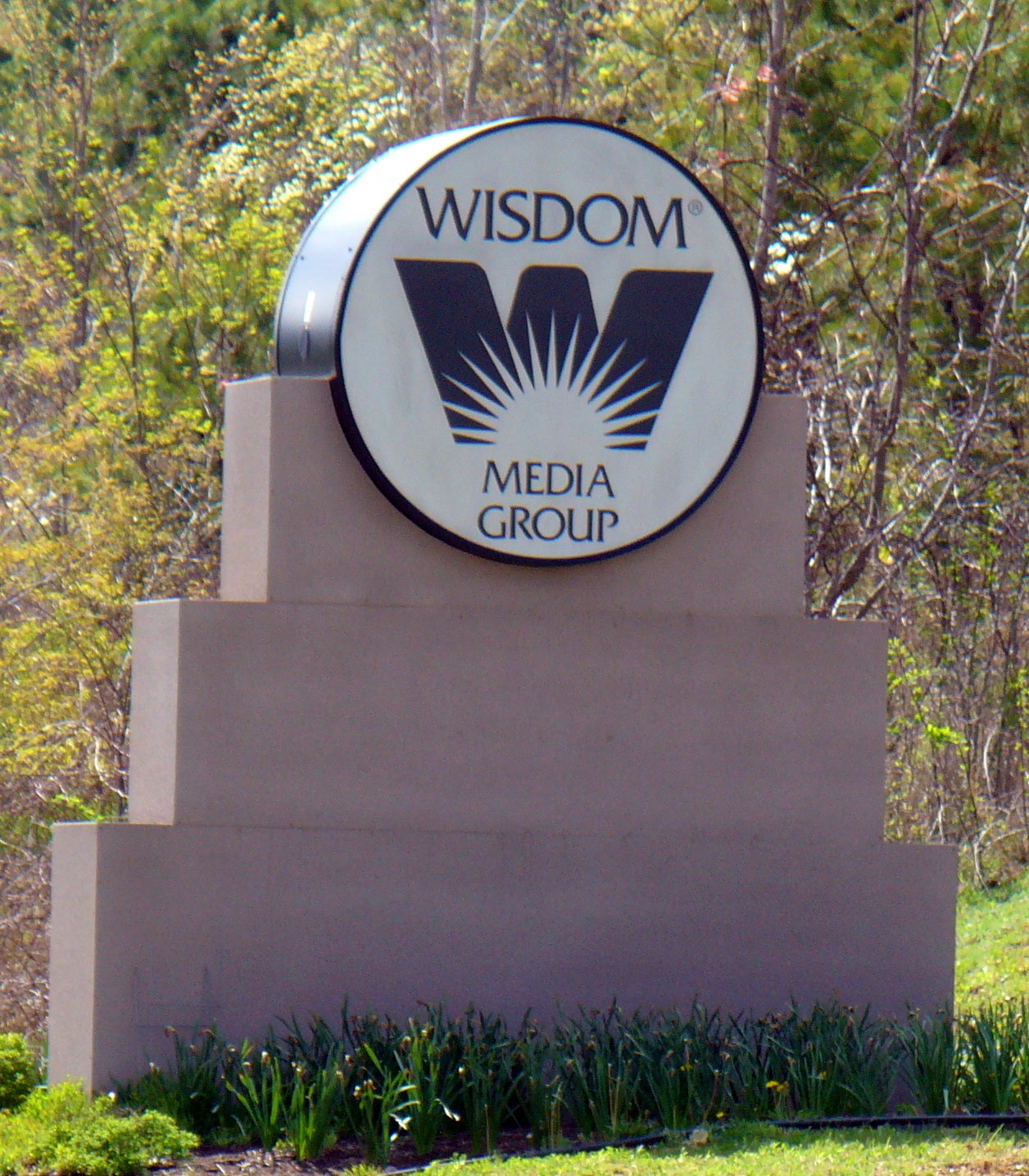 Wisdom Media Group sign on US Route 52 at the site of its former headquarters near Bluefield, West Virginia